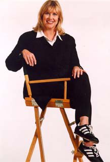 Publicity photo of Linda Arroz, 1998